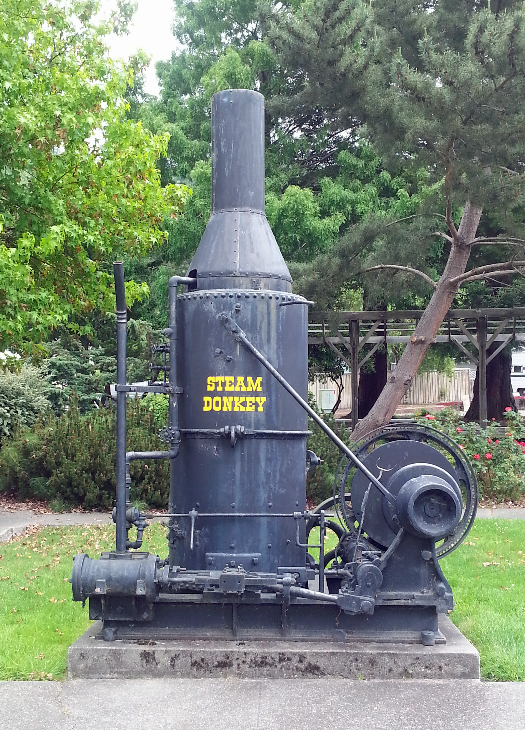 A steam donkey on display at the Scotia Logging Museum in Scotia, California.